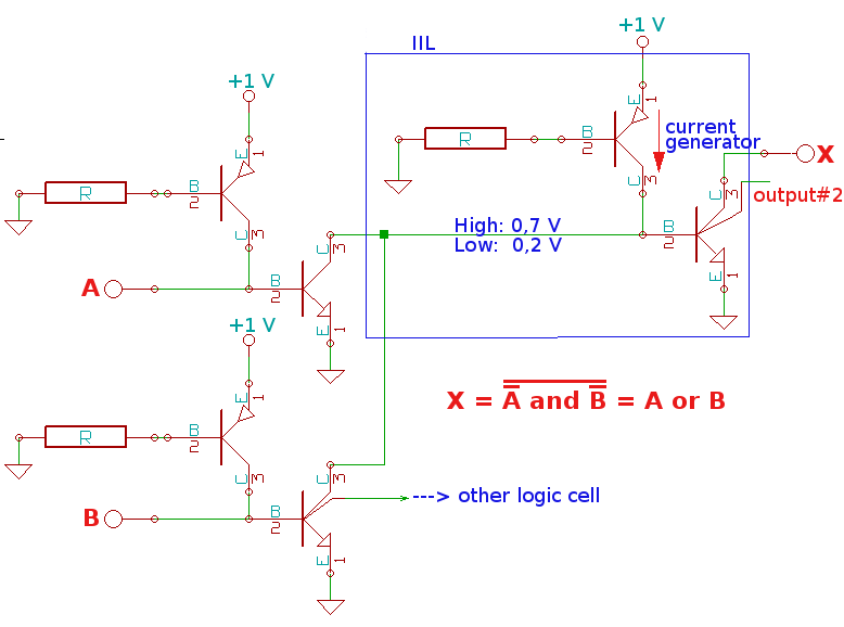 Integrated injection logic